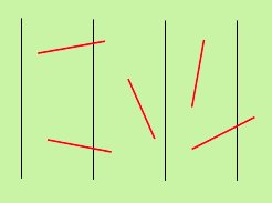 Principle of the needles of Buffon